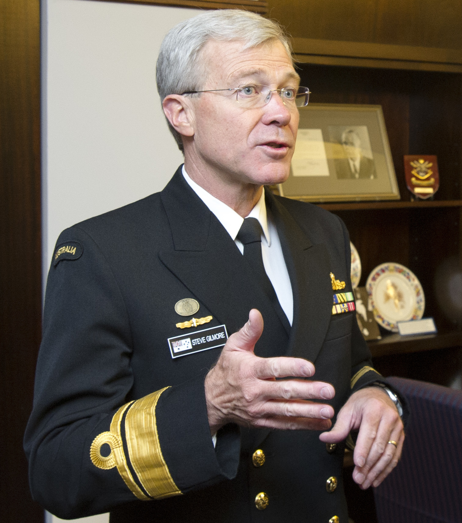 General Raymond Odierno with Australian admiral Steve Gilmore